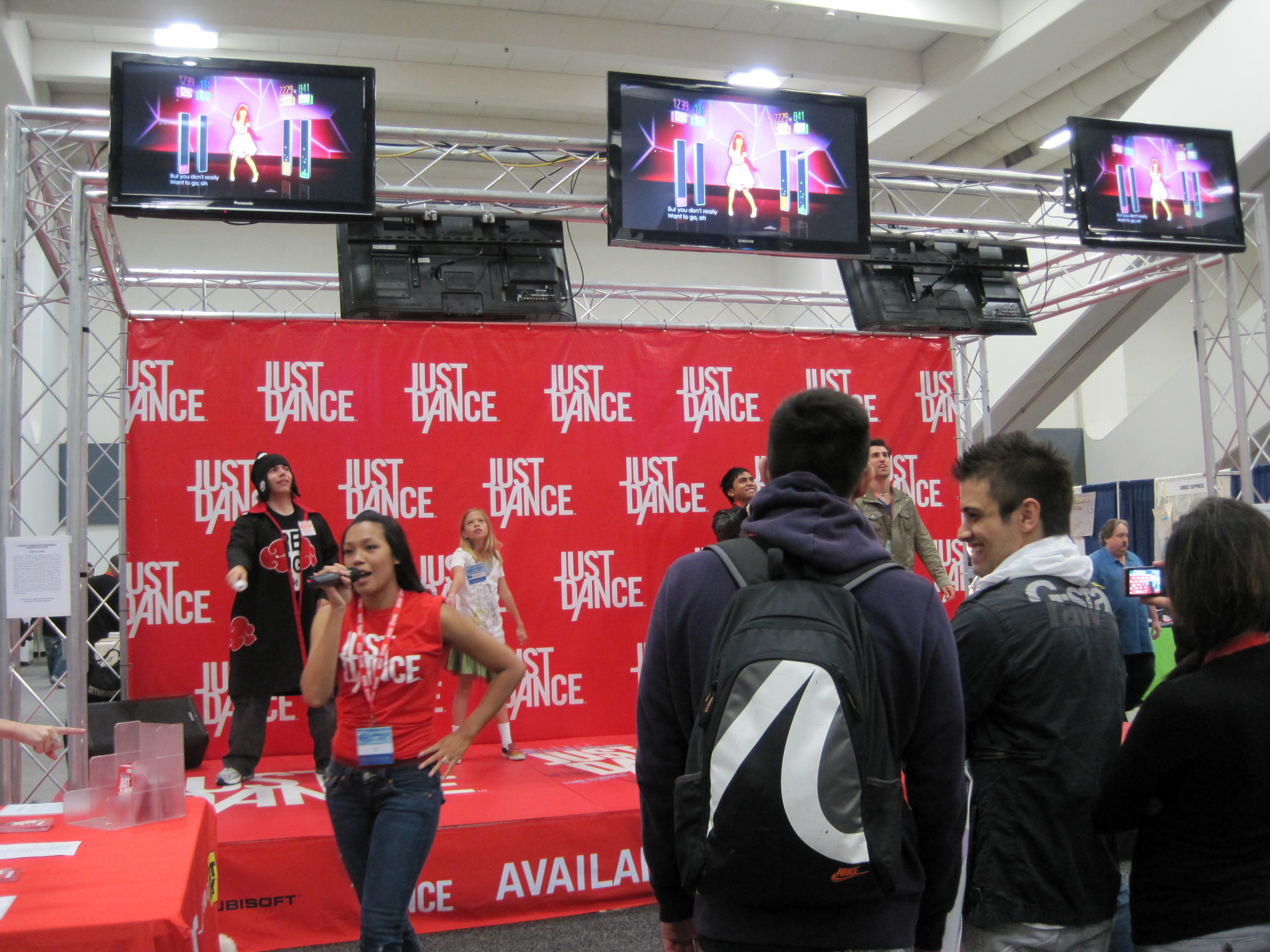 The Just Dance demo booth at WonderCon 2010.